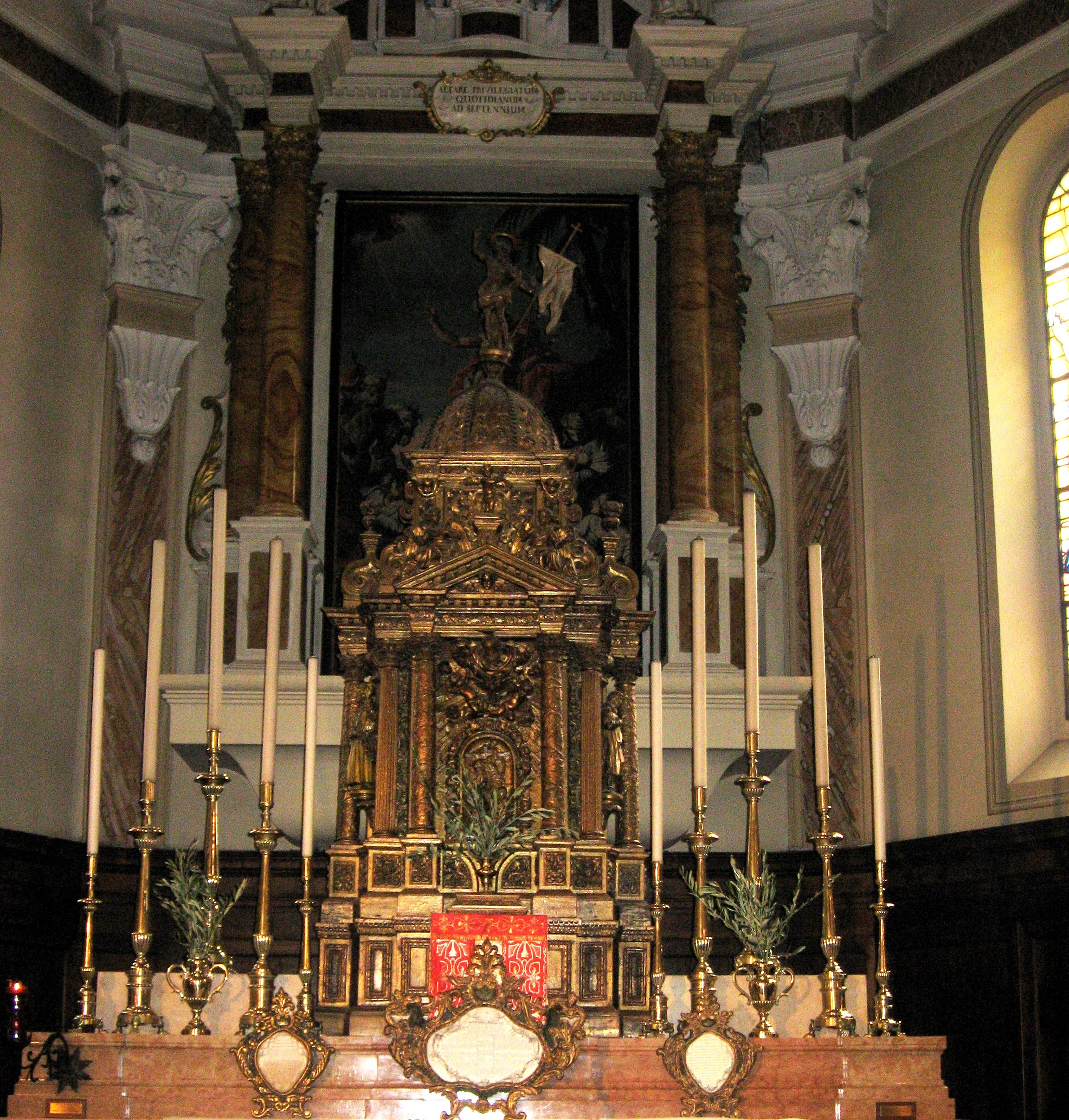 Altar of Brustolon church of San Giovanni Battista, Canale d'Agordo